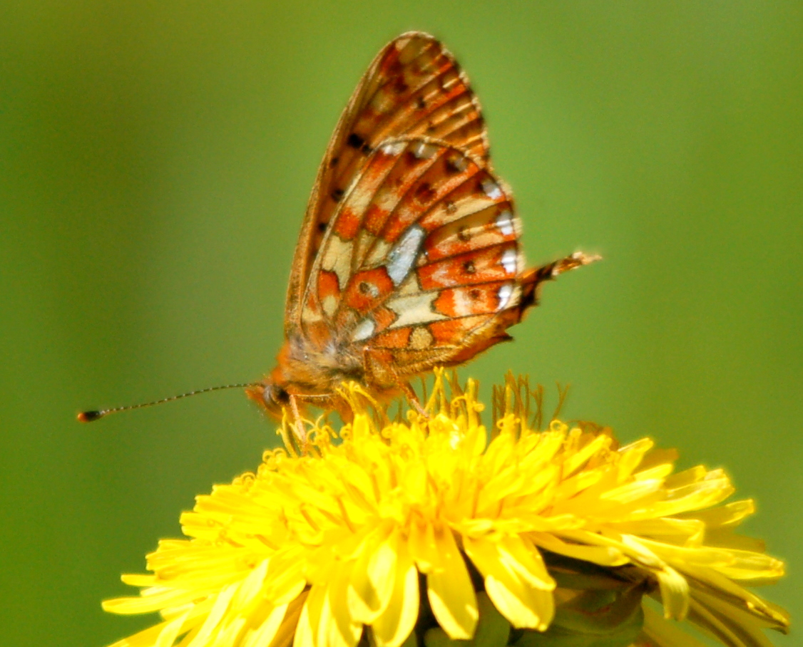 The Pearl-bordered Fritillary (Boloria euphrosyne). Vestmarka, Larvik, Norway.